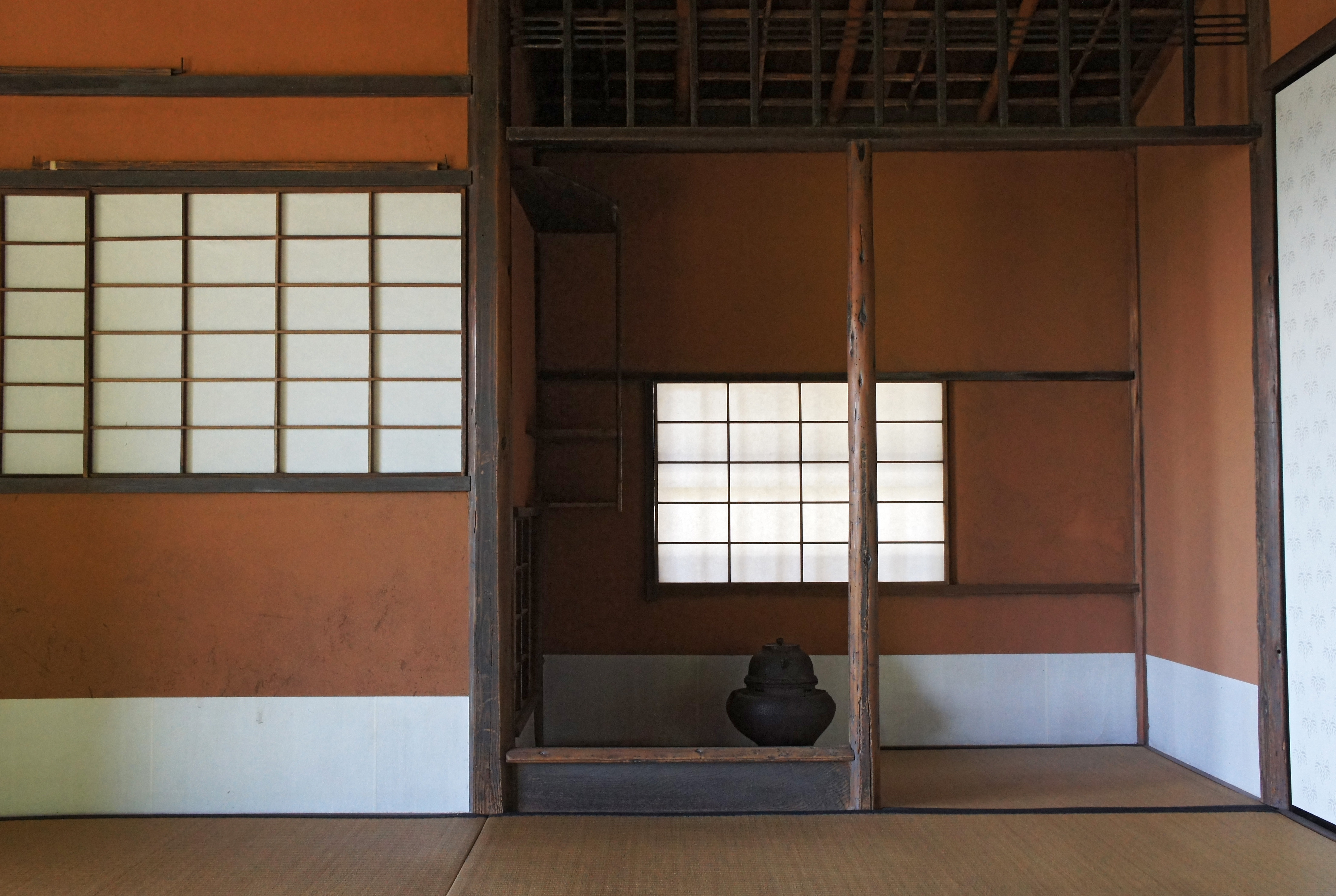 Isome-shi Garden in Otsu, Shiga prefecture, Japan.